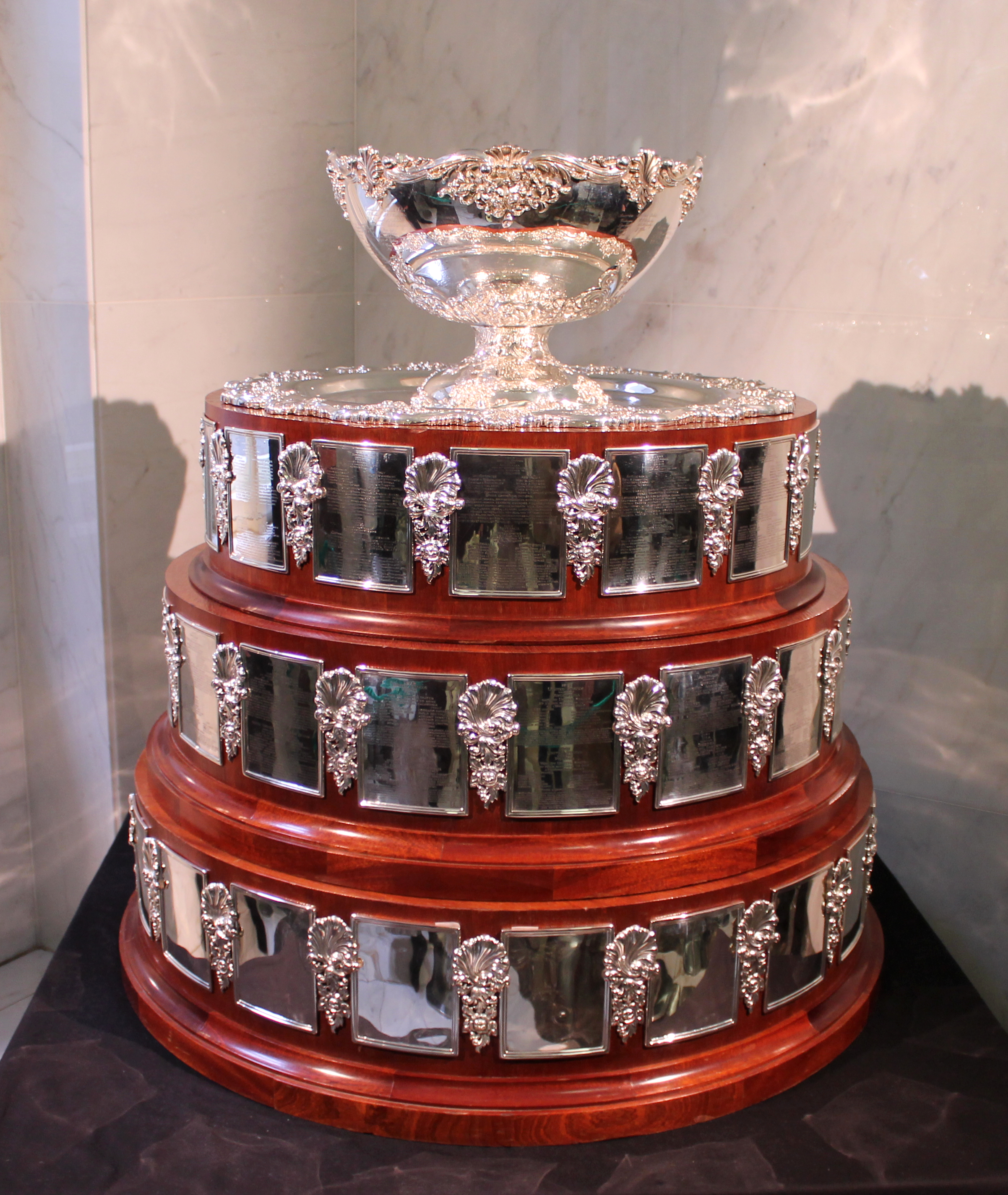 Davis Cup trophy exposed in the Český rozhlas headquarters, Prague-Vinohrady